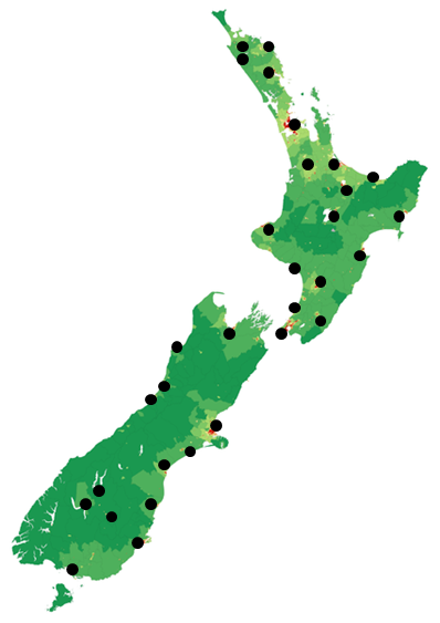 This is a map of TAB Trackside Radio frequencies and New Zealand population density.